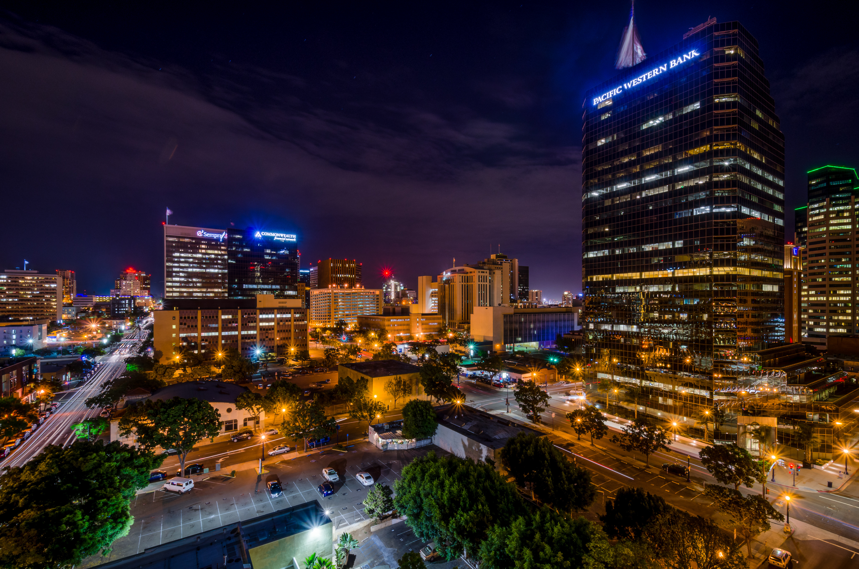 Lighting of San Diego at night